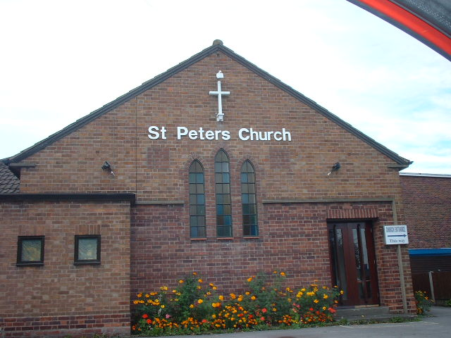 St Peters Church, Chilwell, Nottinghamshire, England